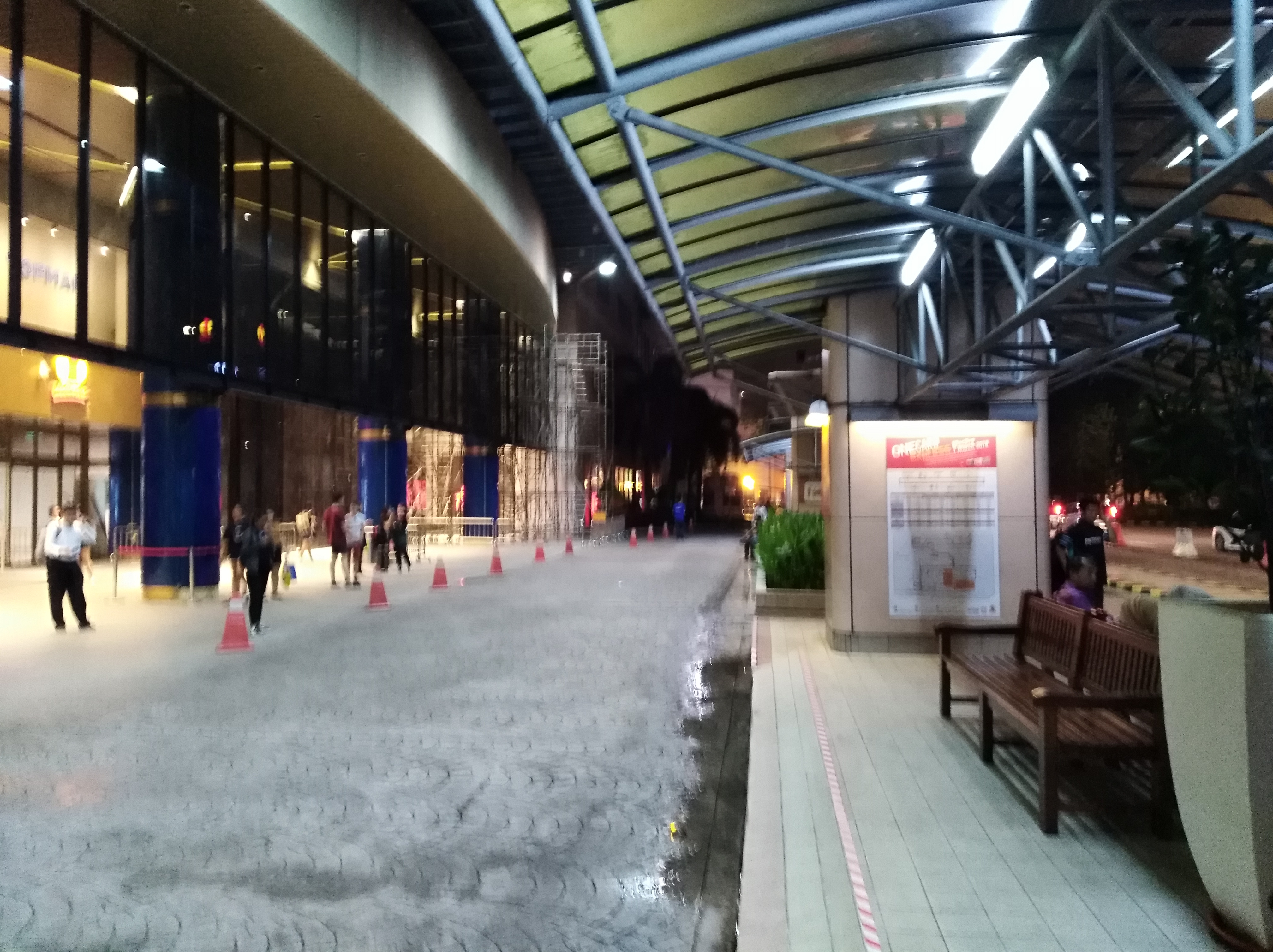 Taken during a trip in KL.